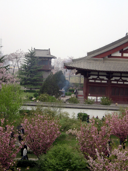 Xi'an Qinglong Temple photo by Siva Commons:Category:Temples in China